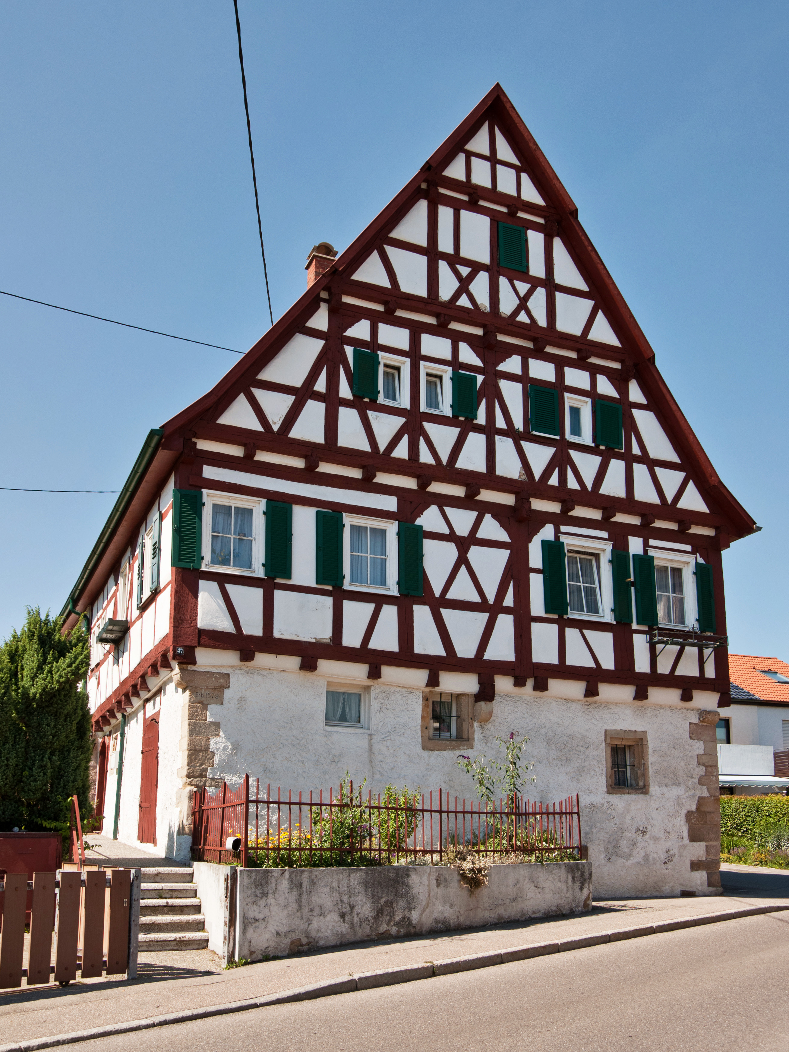 “Rappsches Haus” (oldest preserved frame house of Heumaden - built 1579) in Stuttgart-Heumaden